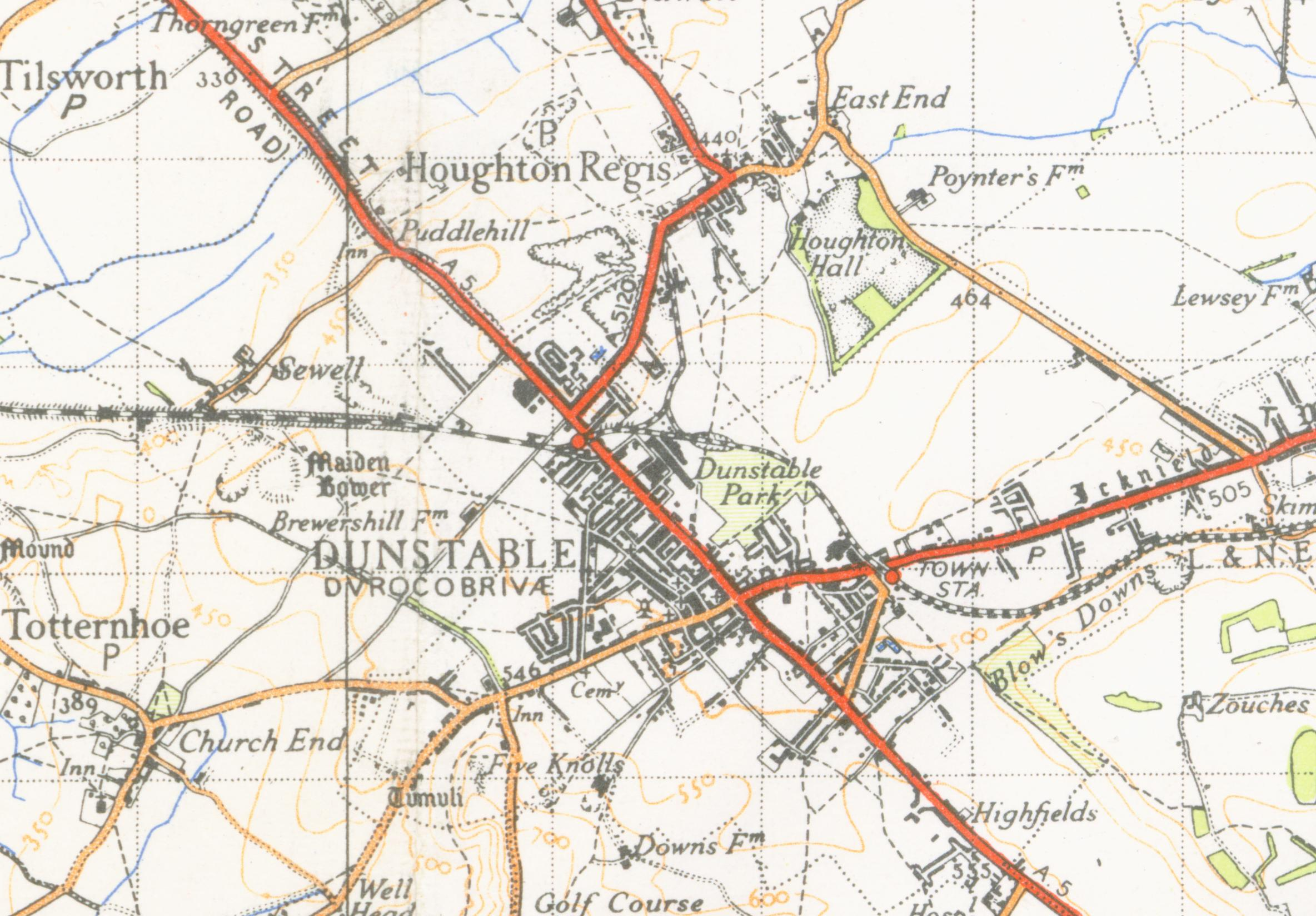 OS map of Dunstable from 944 scale in ch to the mile sheet 160 london NE scanned at 600 DPI